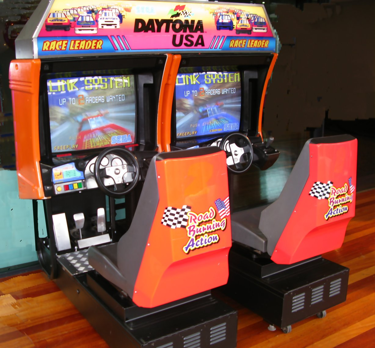 Daytona USA, twin version